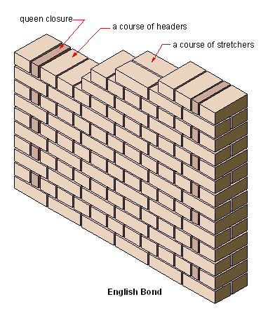 Bill Bradley, aka builderbll, billbeee My own work Feel free to use the work without removing my attribution. You can contact me at my website for higher definition images. My site.